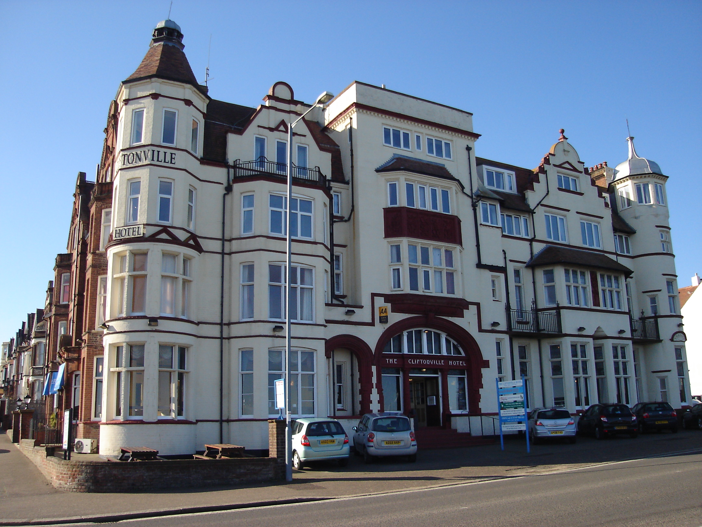 The Cliftonville Hotel, Cromer, Norfolk was completed in 1897 and occupies an elevated location adjacent to the town's West Cliff.